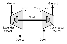 Schematic diagram of a turboexpander and a compresor